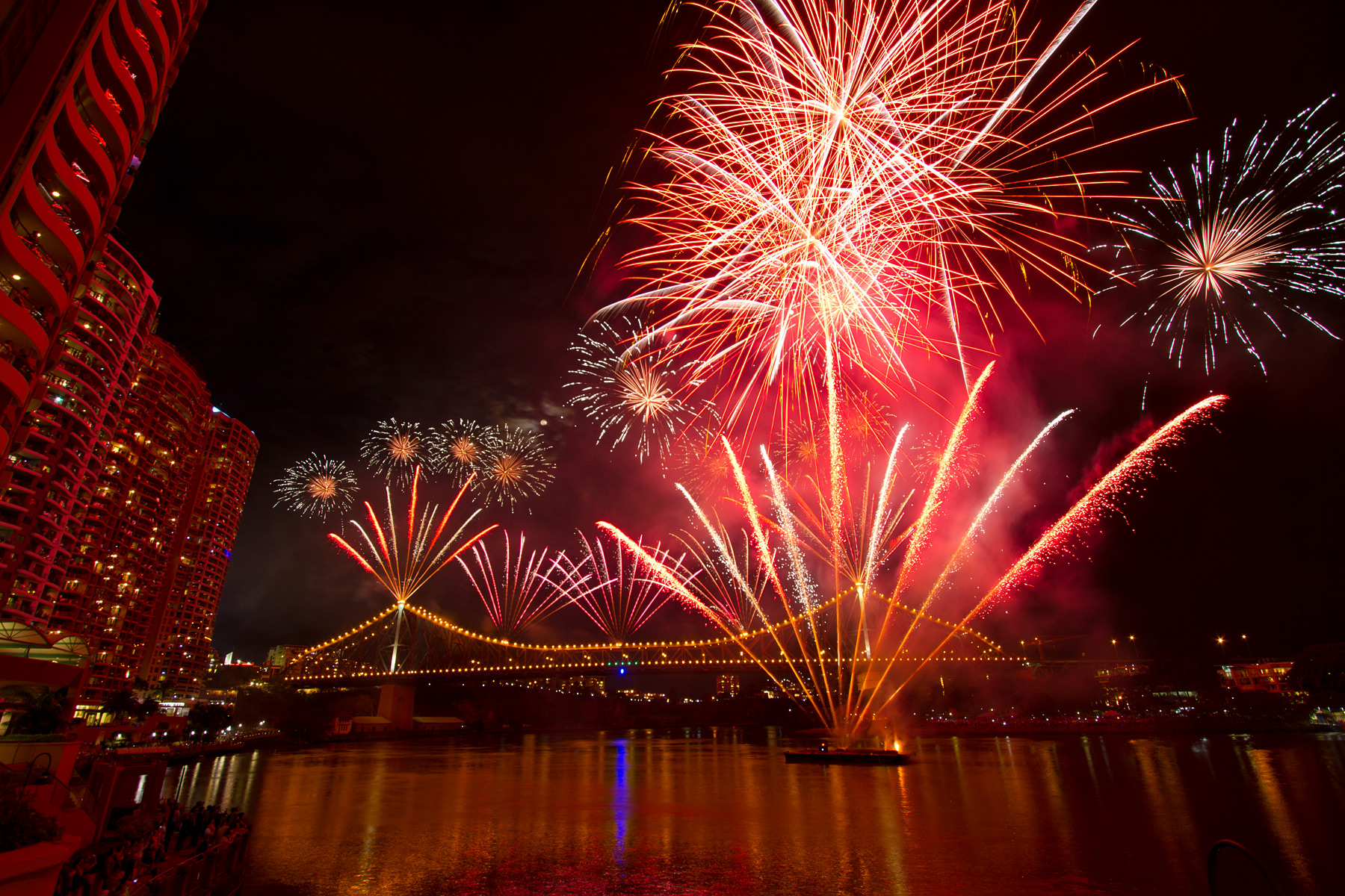 Brisbane Riverfire 2012 Festival fireworks on Story Bridge